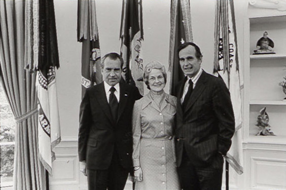 ● Frame(s): WHPO-E2494-03-09, President Nixon standing in the Oval Office greeting Republican National Committee (RNC) officials George H. W. Bush, Chairman, and Mrs. Mary Louise Smith, Co-Chairman. 3/25/1974, Washington, D. C, White House, Oval Office. President Nixon, George Bush, Chairman of the Republican National Committee (RNC), Mrs. Mary Louise Smith, Co-Chairman of the RNC